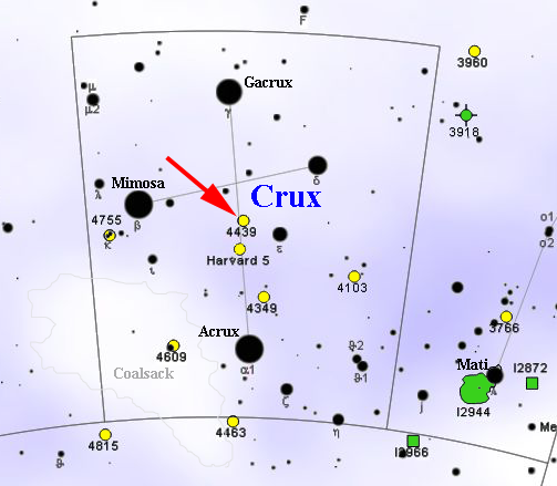 Map of NGC 4439